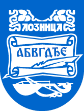 Coat of Arms of the city and municipality of Loznica in Serbia